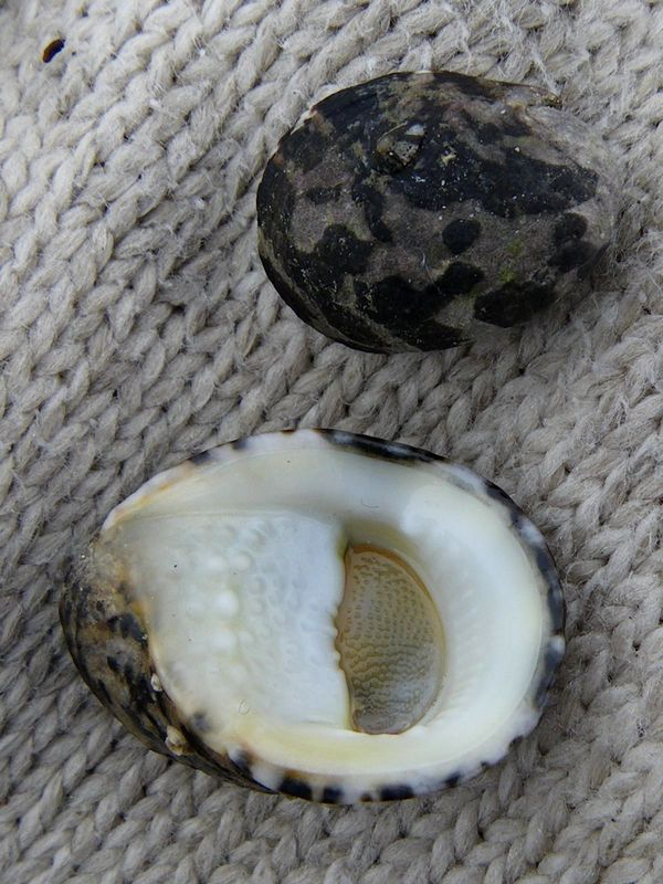 Nerita(Theliostyla) albicilla Linnaeus,1758. at Nagasaki